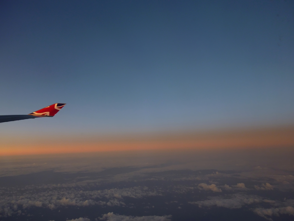 Belt of Venue seen while flying west across the Atlantic at 42,000ft.